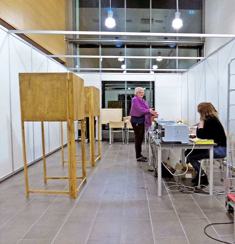 Early voting for the Finland presidential election 2018 in Palokka Library, Jyväskylä. On the left are the voting booths.